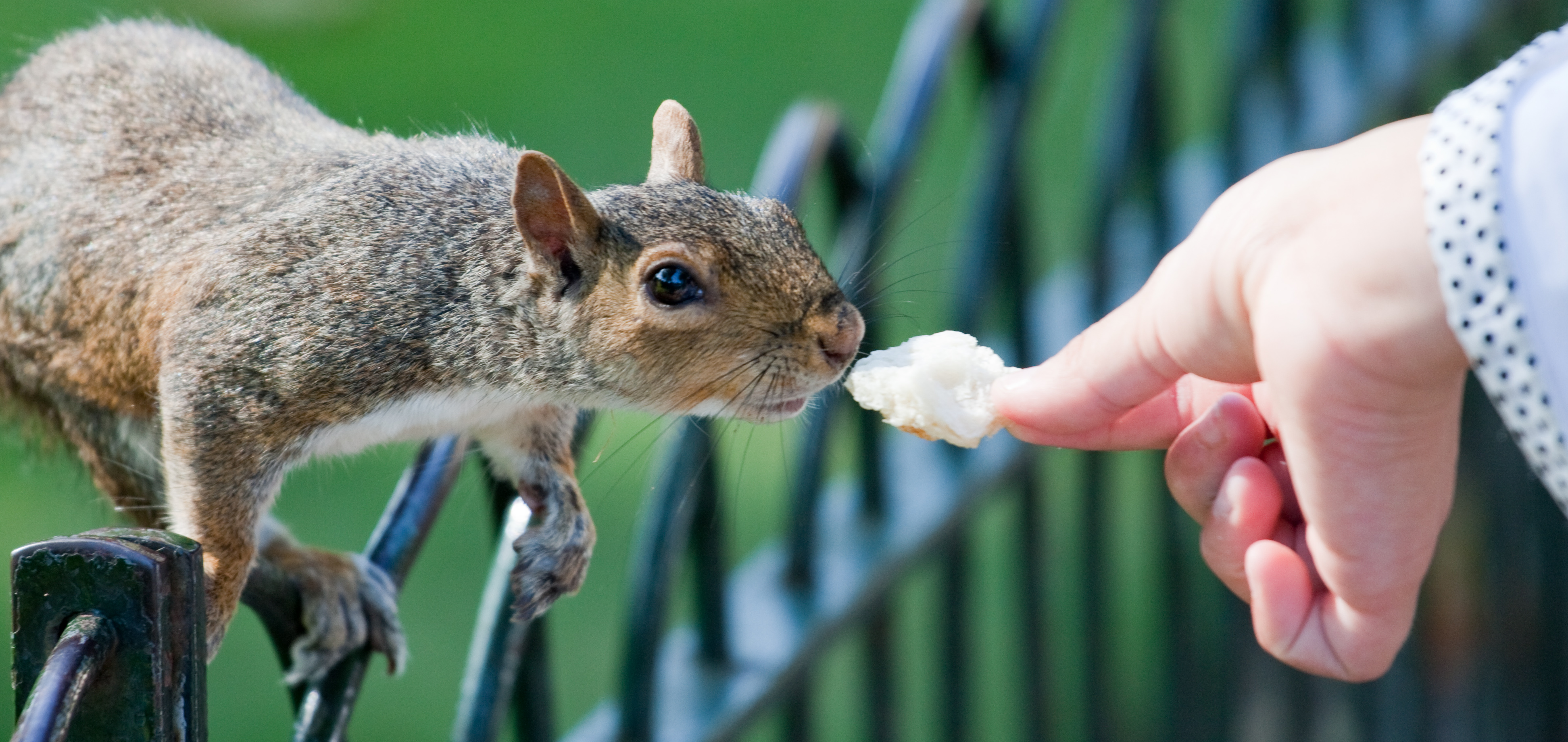 A squirrel sitting on a fence and attempting to eat a small piece of bread in a park in London, Great Britain.